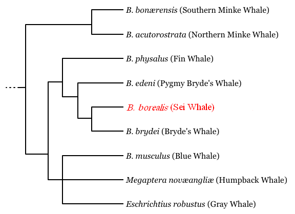 Modified from Image:Rorqual phylogenetic tree.PNG to highlight the Sei Whale.